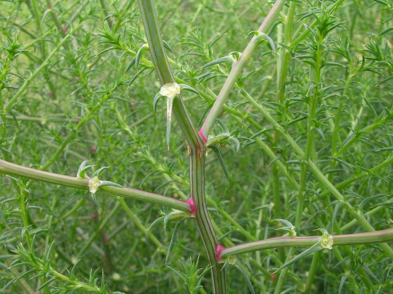 Native, warm season, annual or biennial, erect or hemispherical, hairless herbs to 1 m tall. Leaves are to c. 30 mm long and spine-tipped. Flowers are solitary, but sometimes crowded towards the ends of the branches in dense spike-like clusters. Perianth segments are 3–4 mm long. The fruiting perianth is 4–7 mm diam, with fan-like wings to 3 mm long; Fruit are disperse when the plant breaks off at ground level and blows along. Grows in a wide range of habitats, often a colonizing species. Plants contain up to 30% sodium carbonate and were an important source of soda ash, until the early 19th century. Because of their oxalate content, the plants are potentially toxic to grazing livestock.